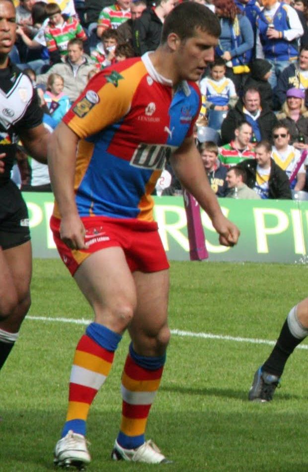 Tony Clubb Quins